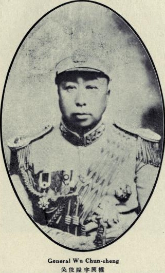 Wu Junsheng, Xingquan (1863 - 1928)